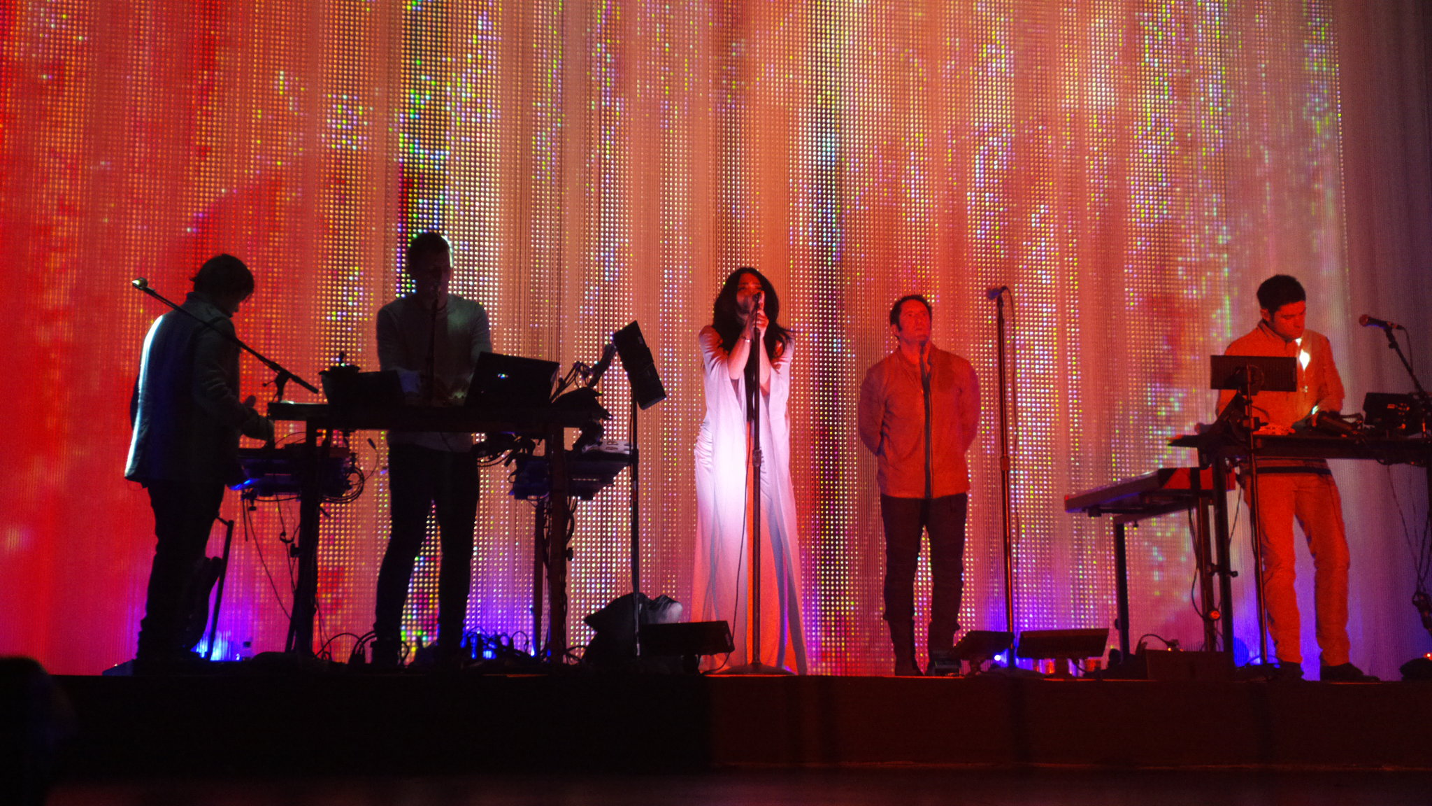 How to Destroy Angels live in 2013